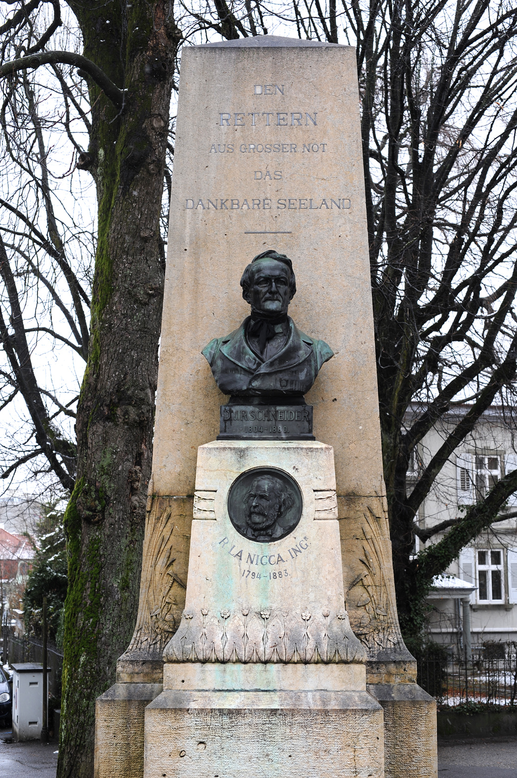 Jura water correction, memorial, Johann Rudolf Schneider and Richard La Nicca; Nidau, Berne, Switzerland.